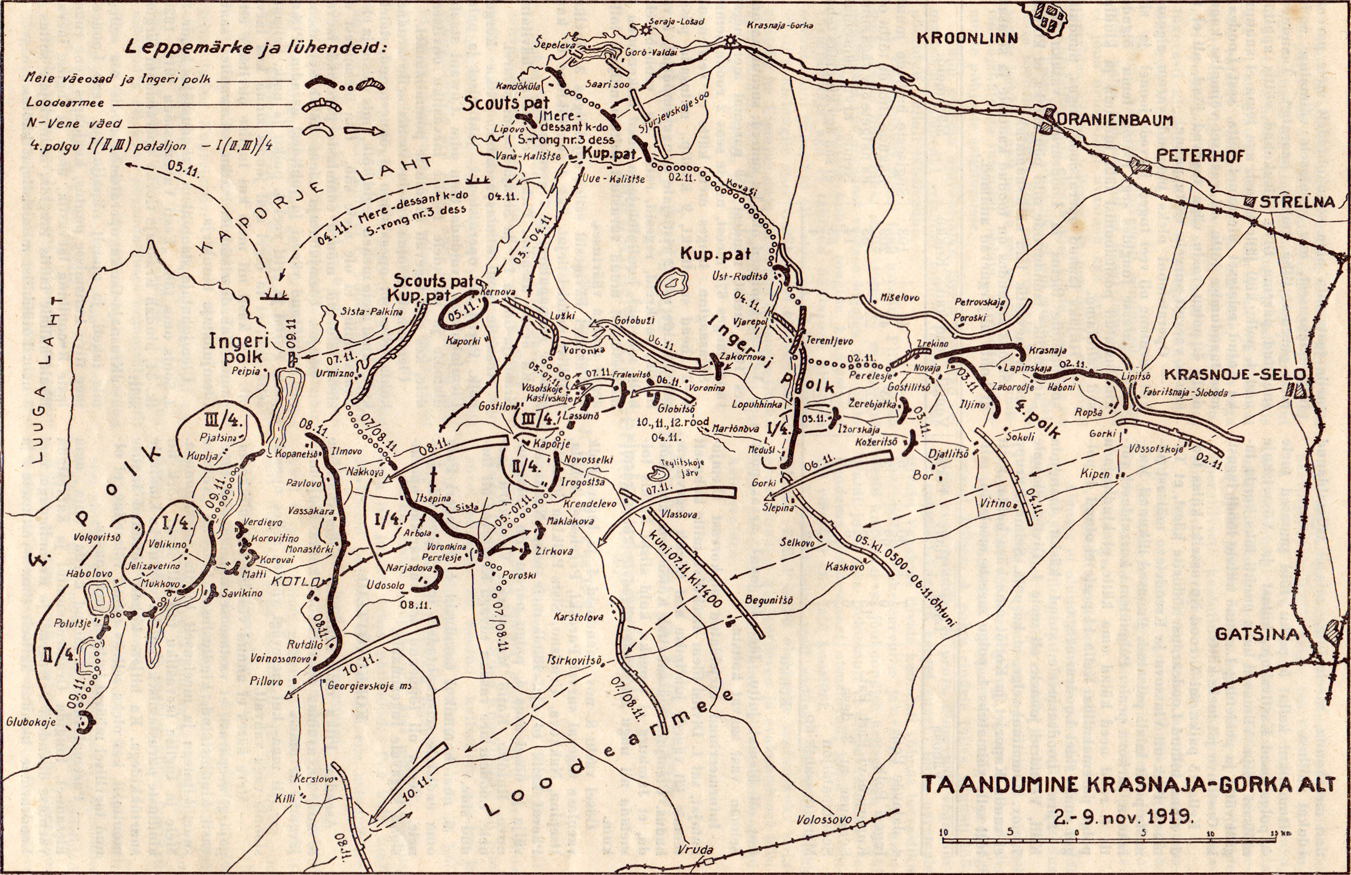 Retreat from Krasnaya Gorka on 2.–9. November 1919.